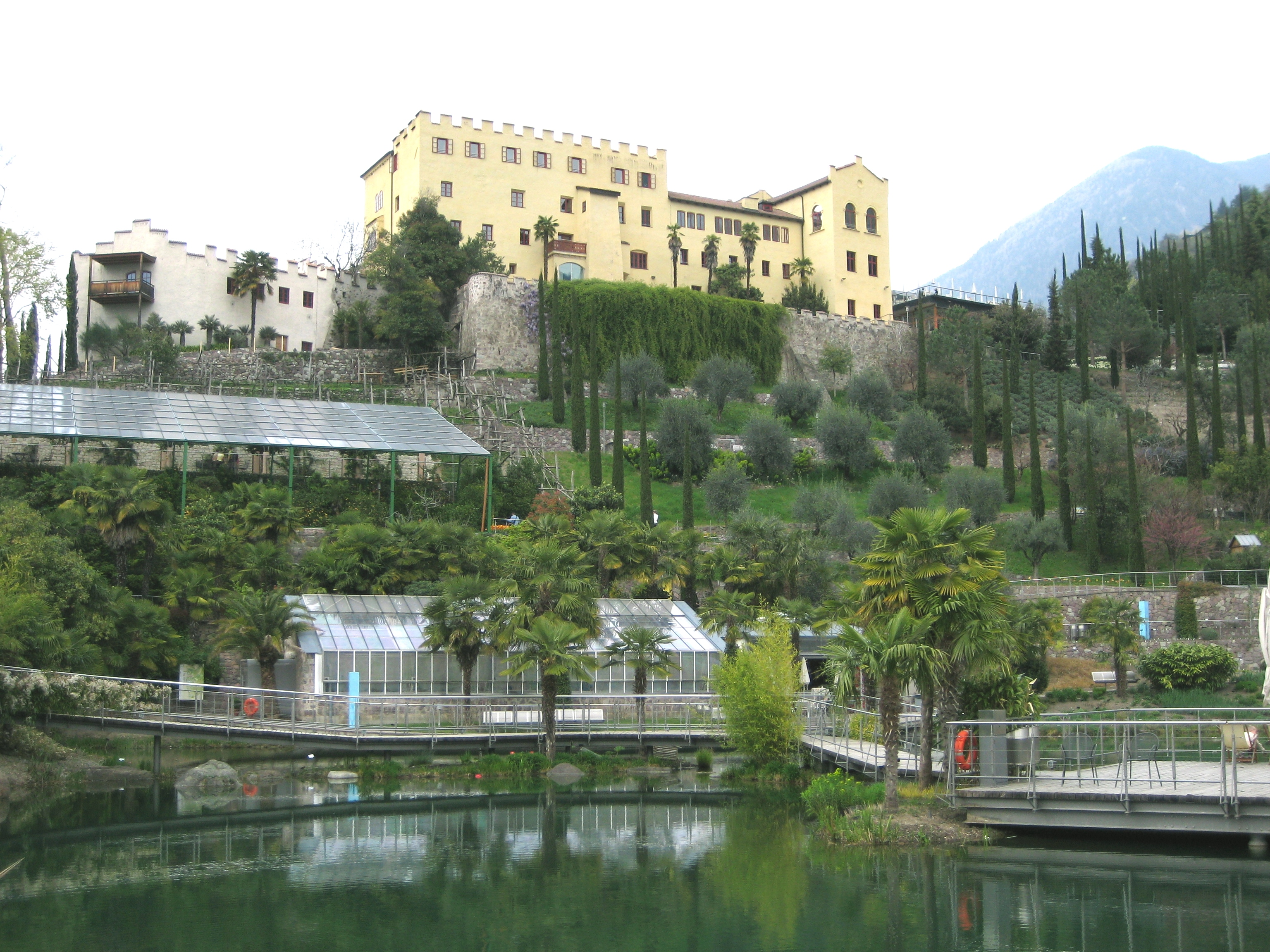 Trauttmansdorff Castle, Merano